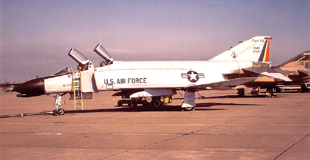 136th Fighter-Interceptor Squadron - McDonnell F-4C-19-MC Phantom 63-7541